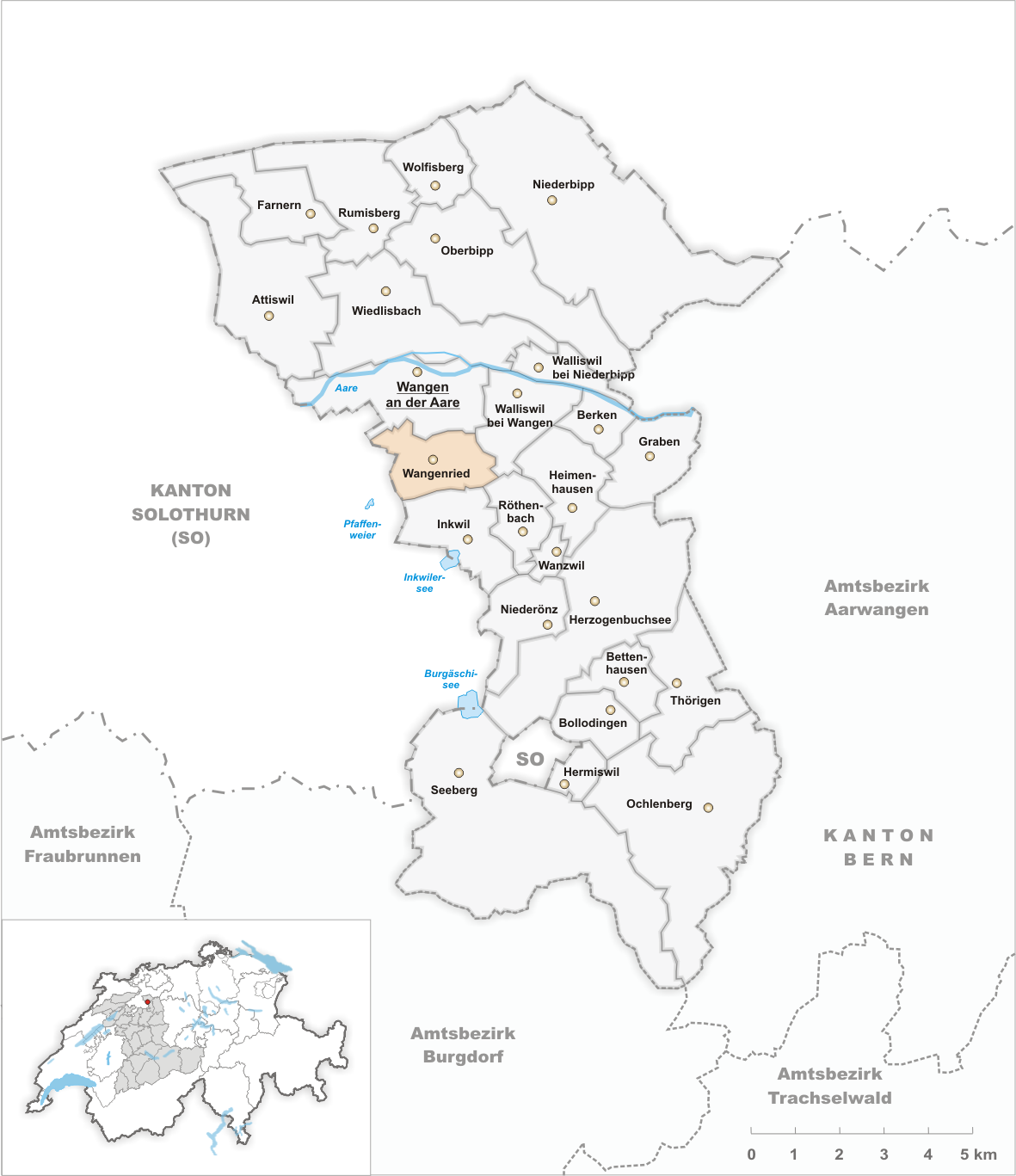 Municipality Wangenried